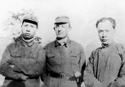 Jakob Rosenfeld and Liu Shaoqi (left) and Chen Yi (right) taken at the New Fourth Army Headquarters in Yancheng of Jiangsu, China